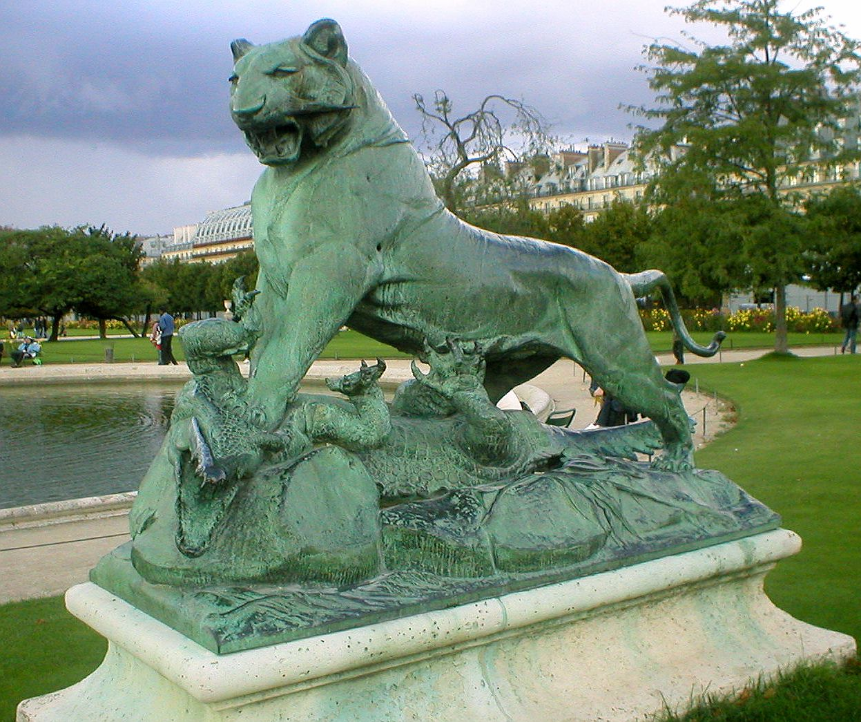 Tiger striking down a crocodile. Bronze from Auguste Caïn (1873), Jardin des Tuileries, Paris.